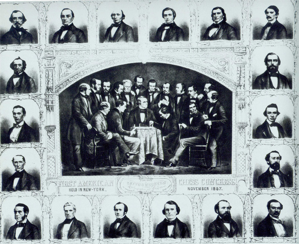 Lithograph from the First American Chess Congress, New York 1857